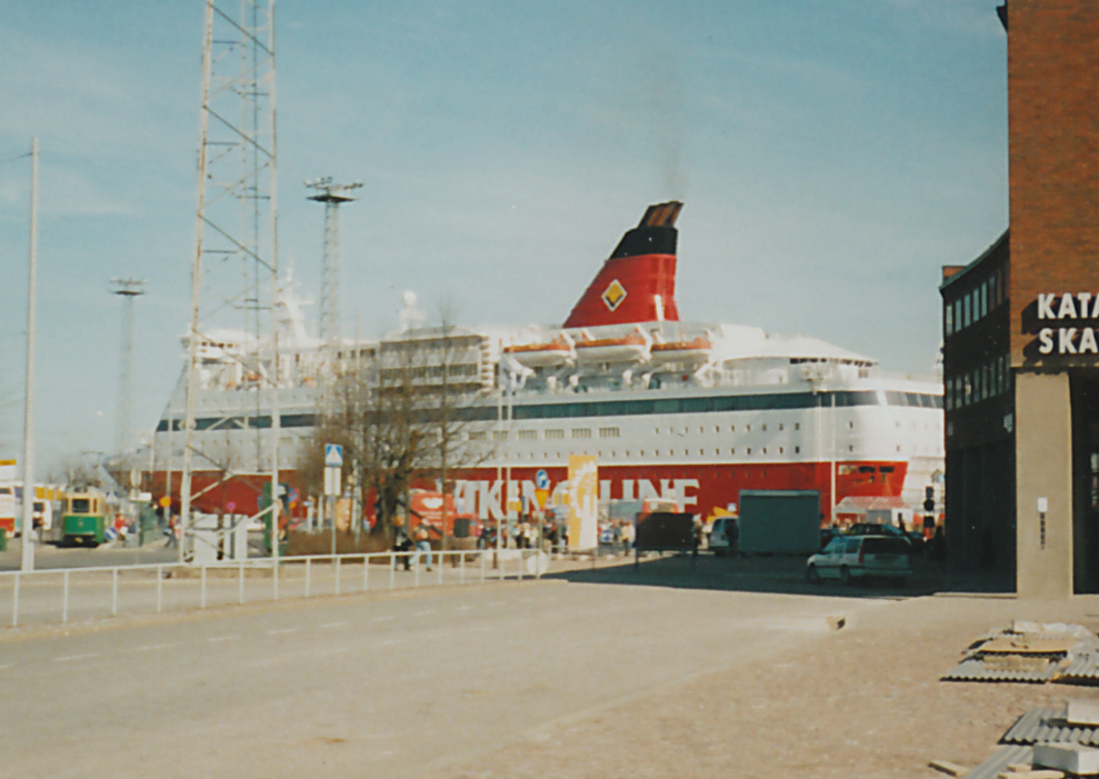 Viking Line cruiseferry MS Gabriella at the cruise ship quay in Helsinki South Harbour during first month in Viking Line service. Notice the all-red funnel and white car ramps at the rear.